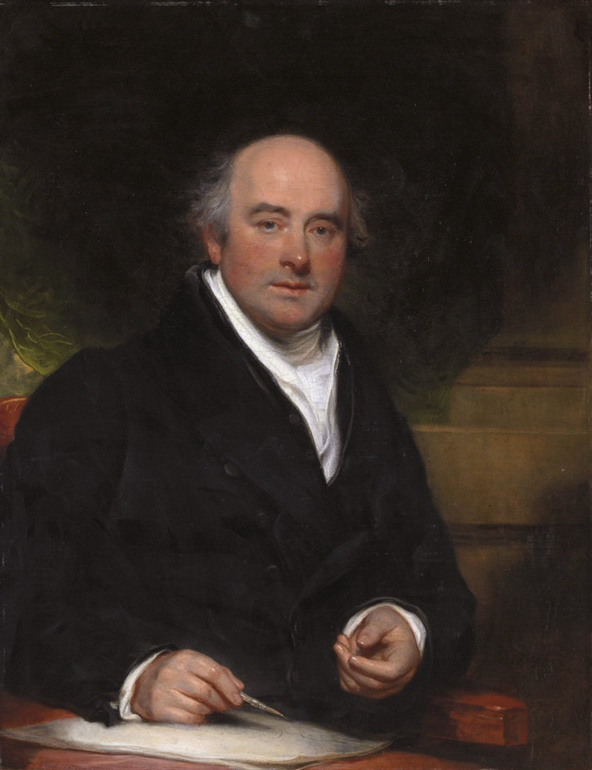 Sir Martin Archer Shee, P.R.A. (Dublin 1769-1850 Brighton) Sir Francis Leggatt Chantrey, R.A. (1781-1841), sketching with a stylus oil on canvas laid down on board 92.7 x 71.6 cm.